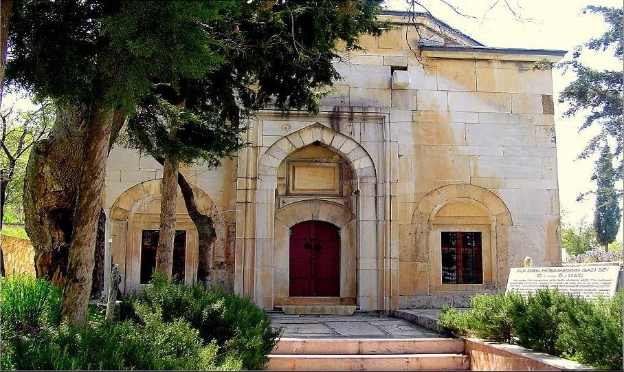 Anatolian Seljuk Sultanate era tomb of Hüsameddin Gazi Bey (d. 1252), Baklan, Denizli, Turkey.